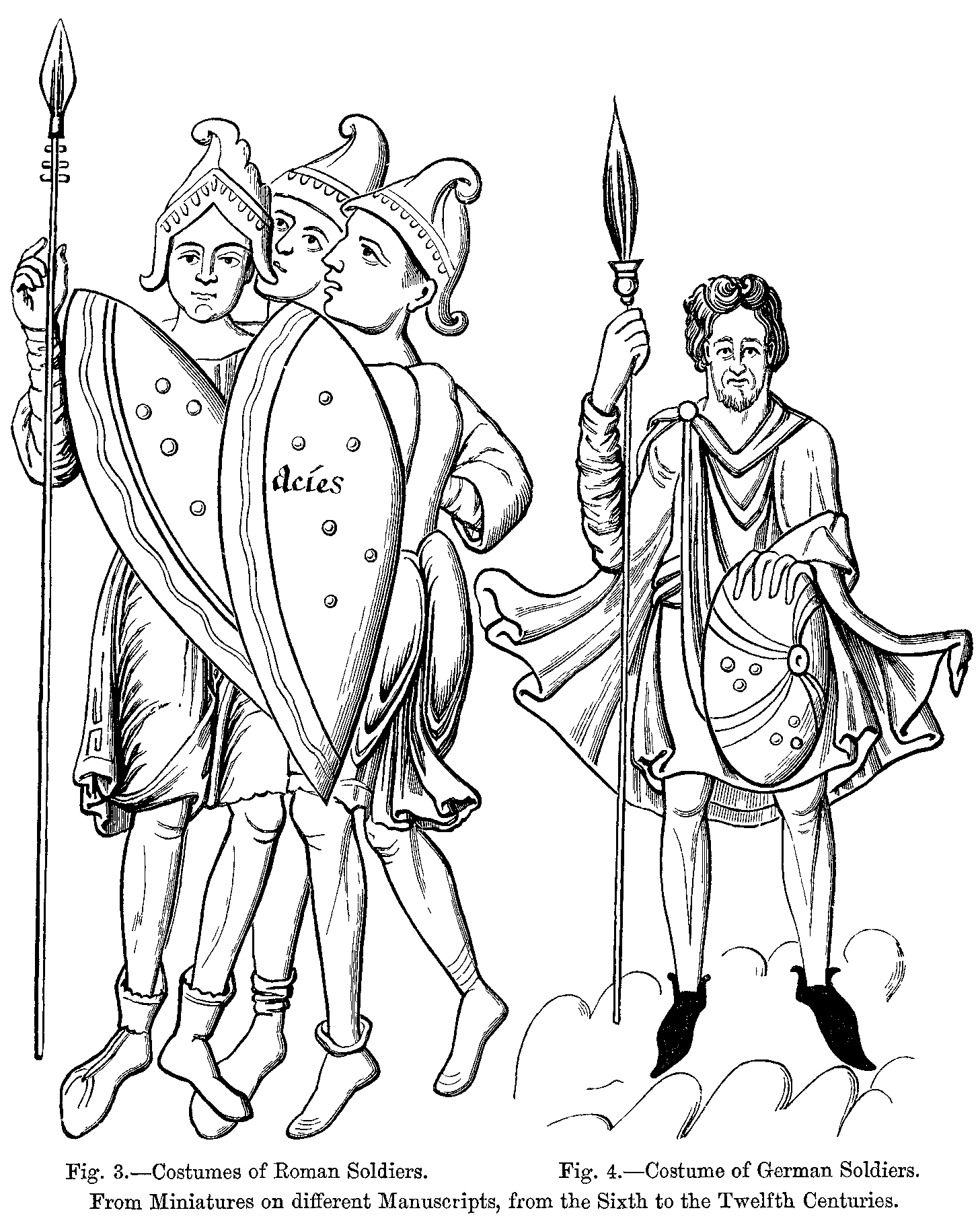 Costumes of Roman and German Soldiers - From Miniatures on different Manuscripts, from the Sixth to the Twelfth Centuries.